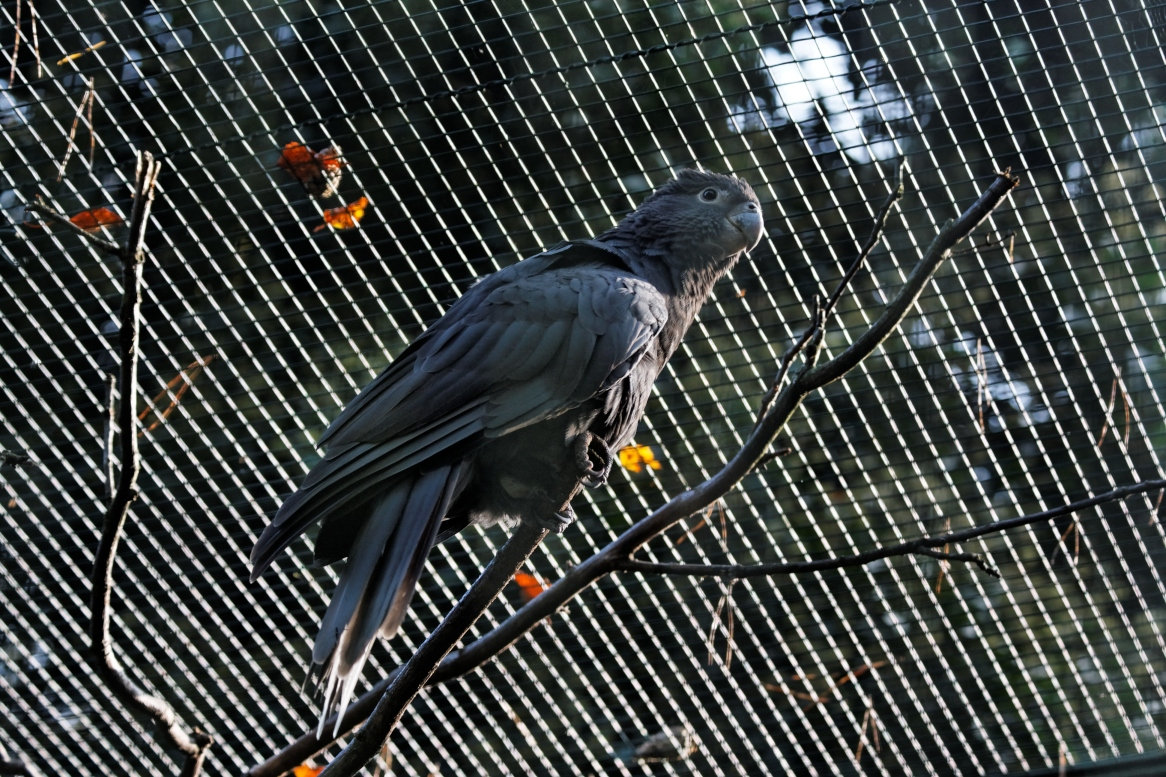 Greater Vasa Parrot in an aviary.